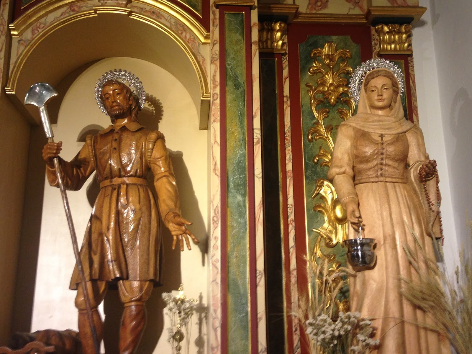 Retablo de San Isidro labrador y Santa María de la Cabeza